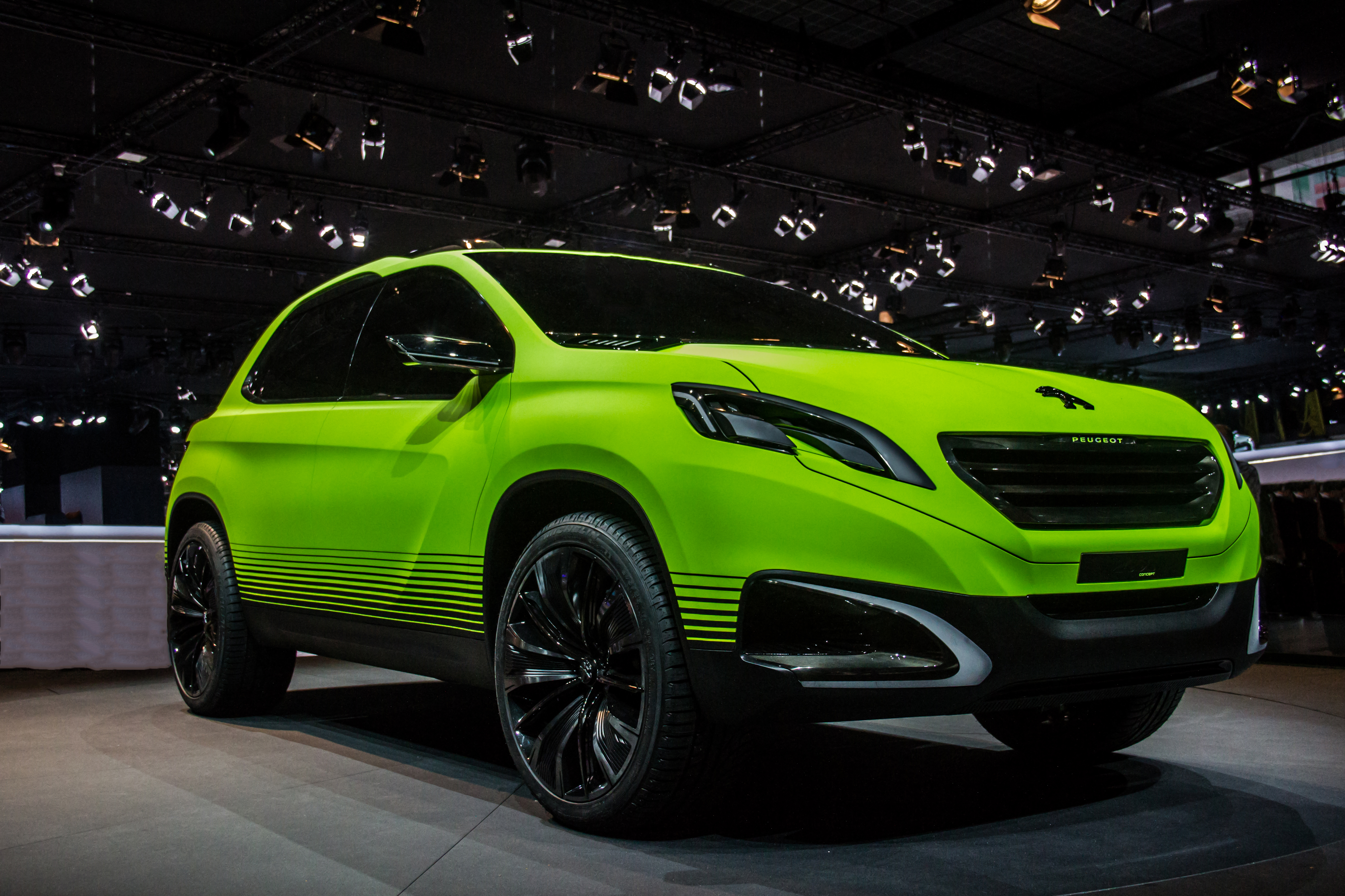 The Green yellow colour was really amazing and powerfull